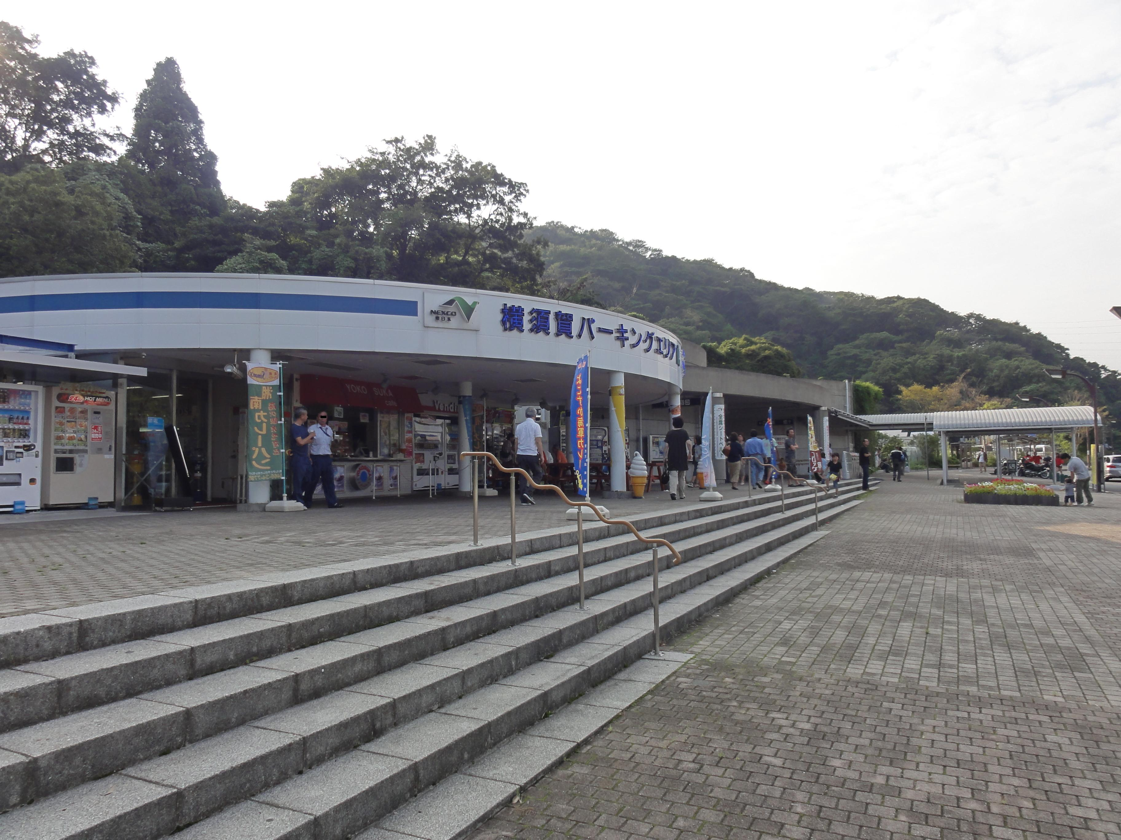 Yokosuka Paking Area,Kanagawa prefecture, Japan